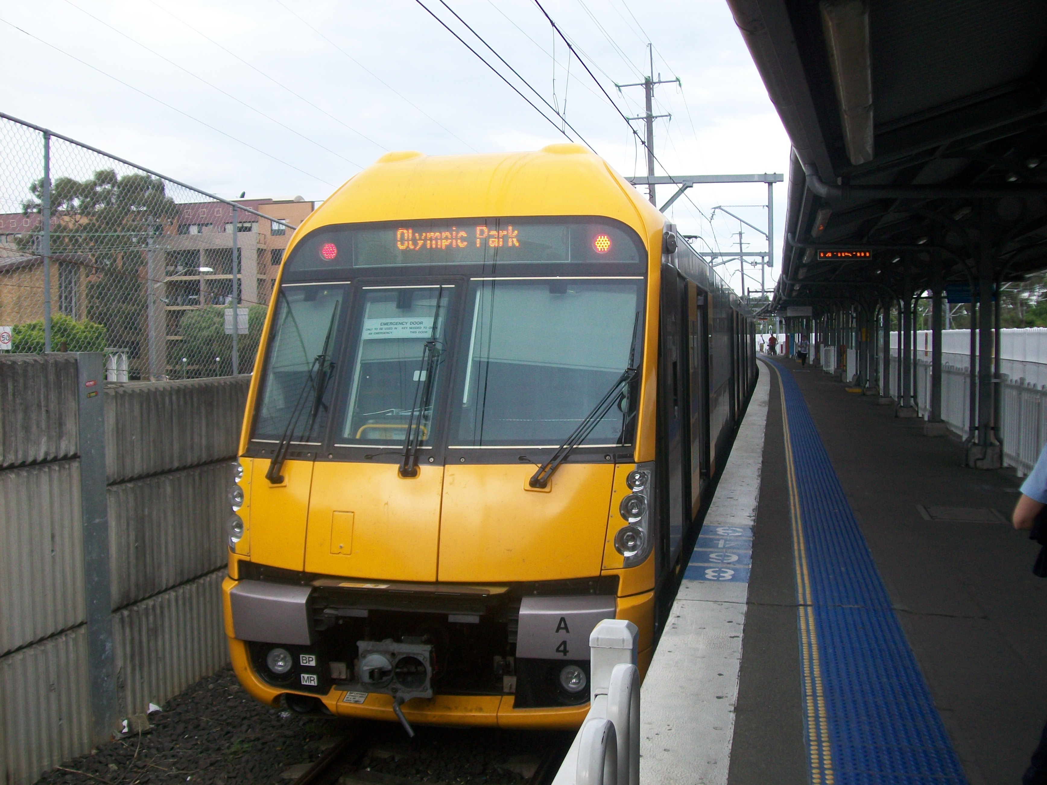 Waratah A4 at Lidcombe